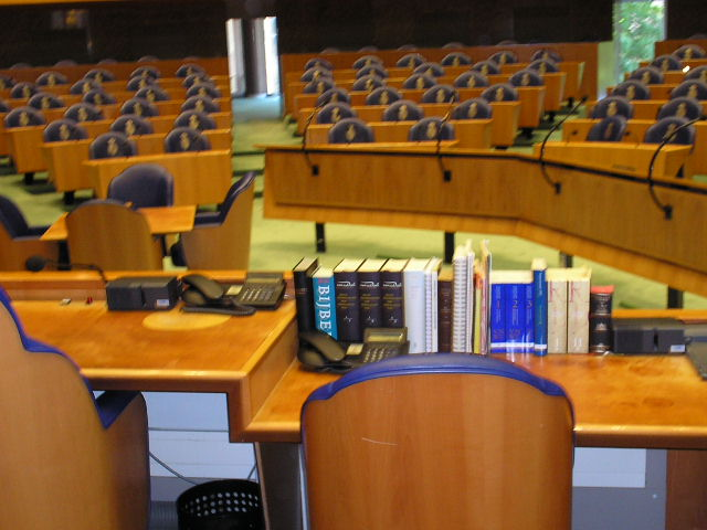 The table of the chairperson in the chamber of the Tweede Kamer, with bibles, dictionaries etc., for fact checking of dubious statements.